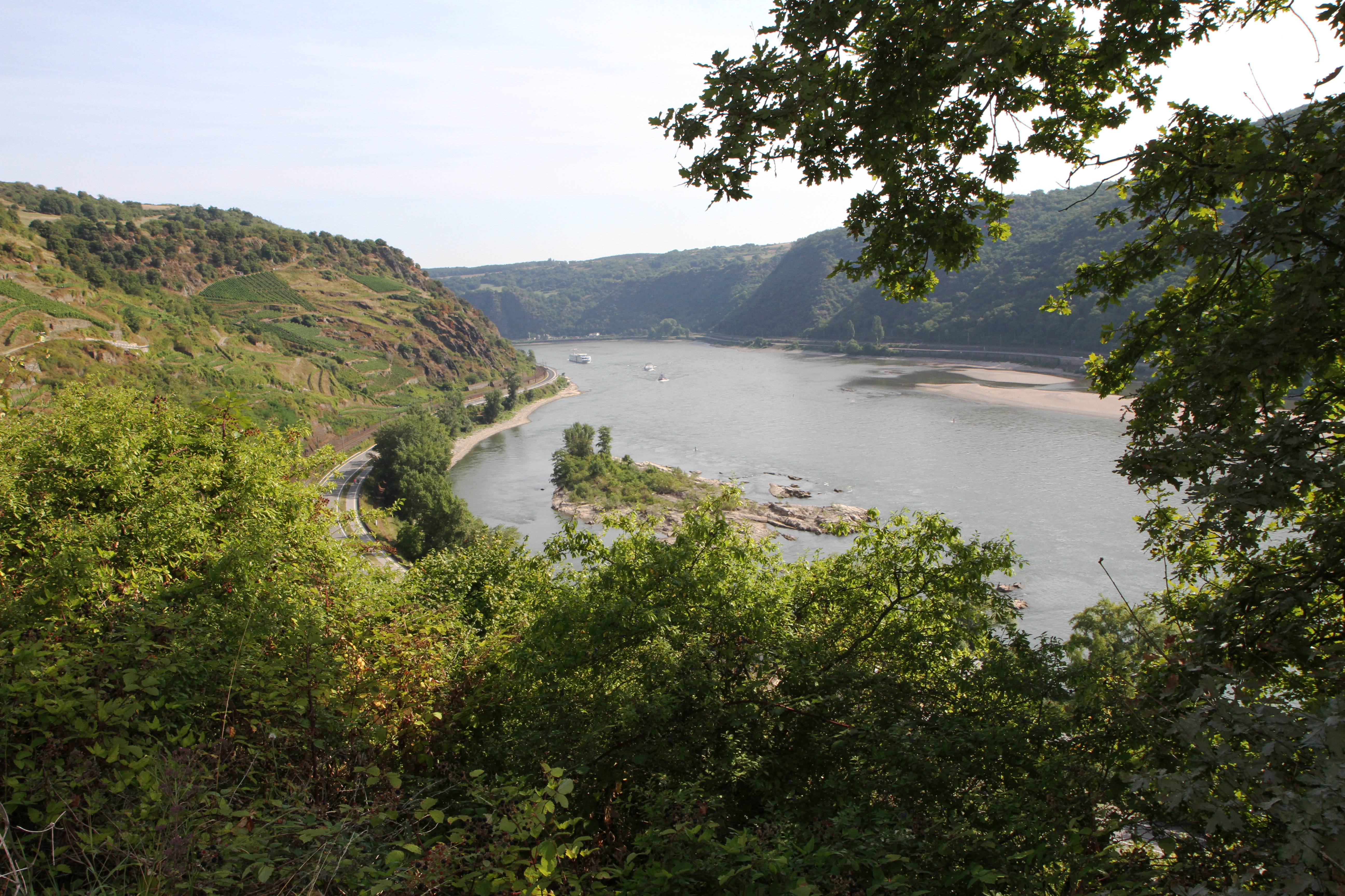 Rhine shallows of Oberwesel. Rhine Valley/Germany.